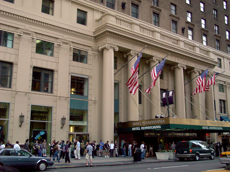 Hotel pennsylvania new york without billboards